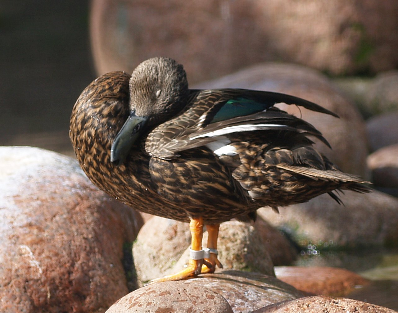 Anas melleri, cleaning its feathers. From Cologne Zoo, Germany